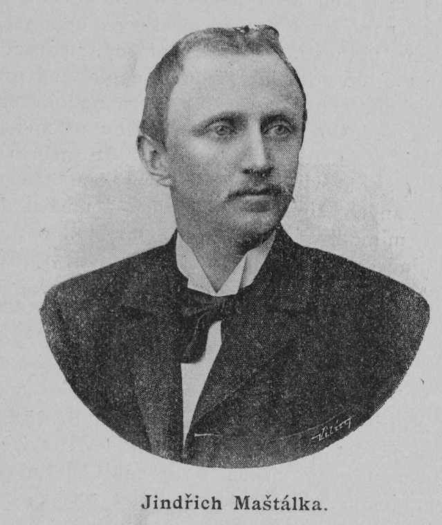 Portrait of Jindřich Gustav Maštalka (1866 - 1926), Czech politician. Cropped from a gallery of deputies of Austrian Reichsrat from Bohemia that were elected in 1897.